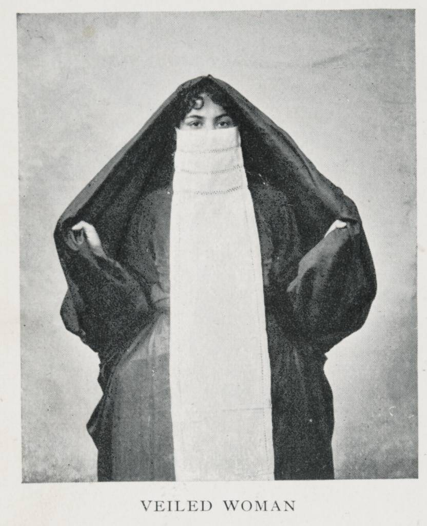 A woman faces the camera while wearing a dark head-dress and dress and a long white veil that covers her face from the nose down and hangs to her feet.